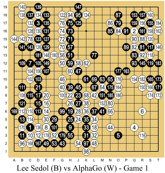 Lee Sedol (B) vs AlphaGo (W) - Game 1 Komi: 7.50 Time: 2h0min 3x1min byo-yomi Result: White wins by resignation Rules: Chinese